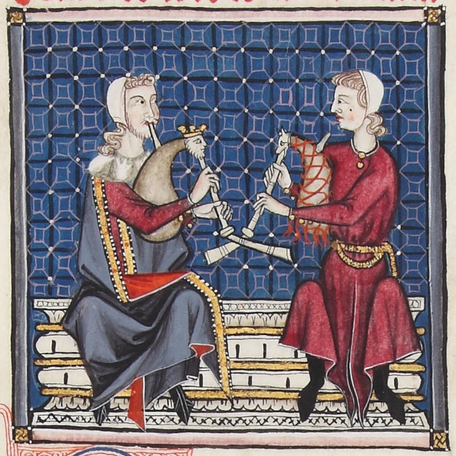 Illustration from Cantigas de Santa Maria manuscript. The Cantigas de Santa Maria (Songs to the Virgin Mary) are manuscripts written in Galician-Portuguese, with music notation, during the reign of Alfonso X El Sabio (1221-1284) and are one of the largest collections of monophonic (solo) songs from the middle ages.